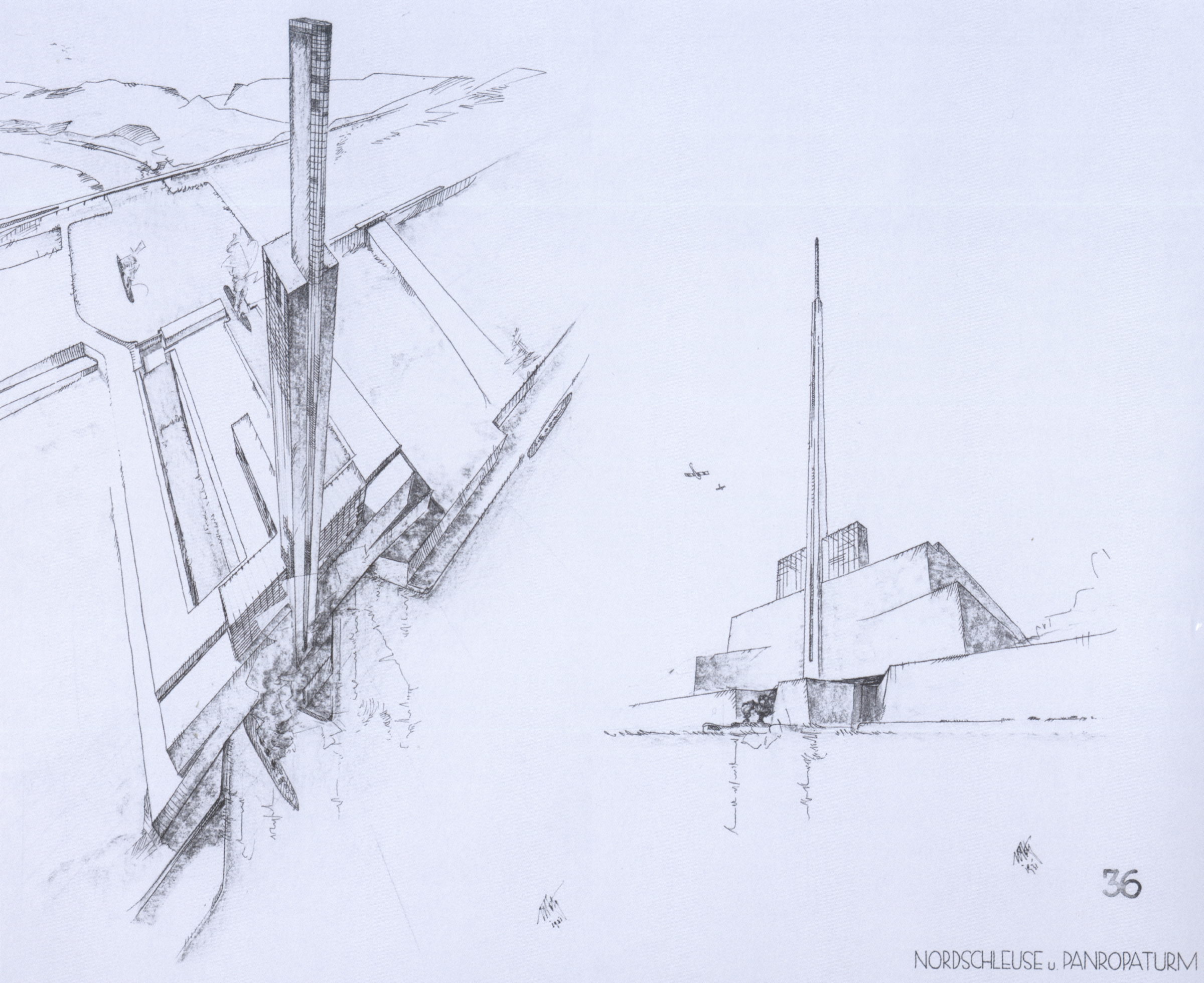 Northern Lock with Skyscraper at the Gibraltardam, bird's view (left) and from the perspective of the lowered Mediterranean Sea (right). (Description on the page of the scan source).